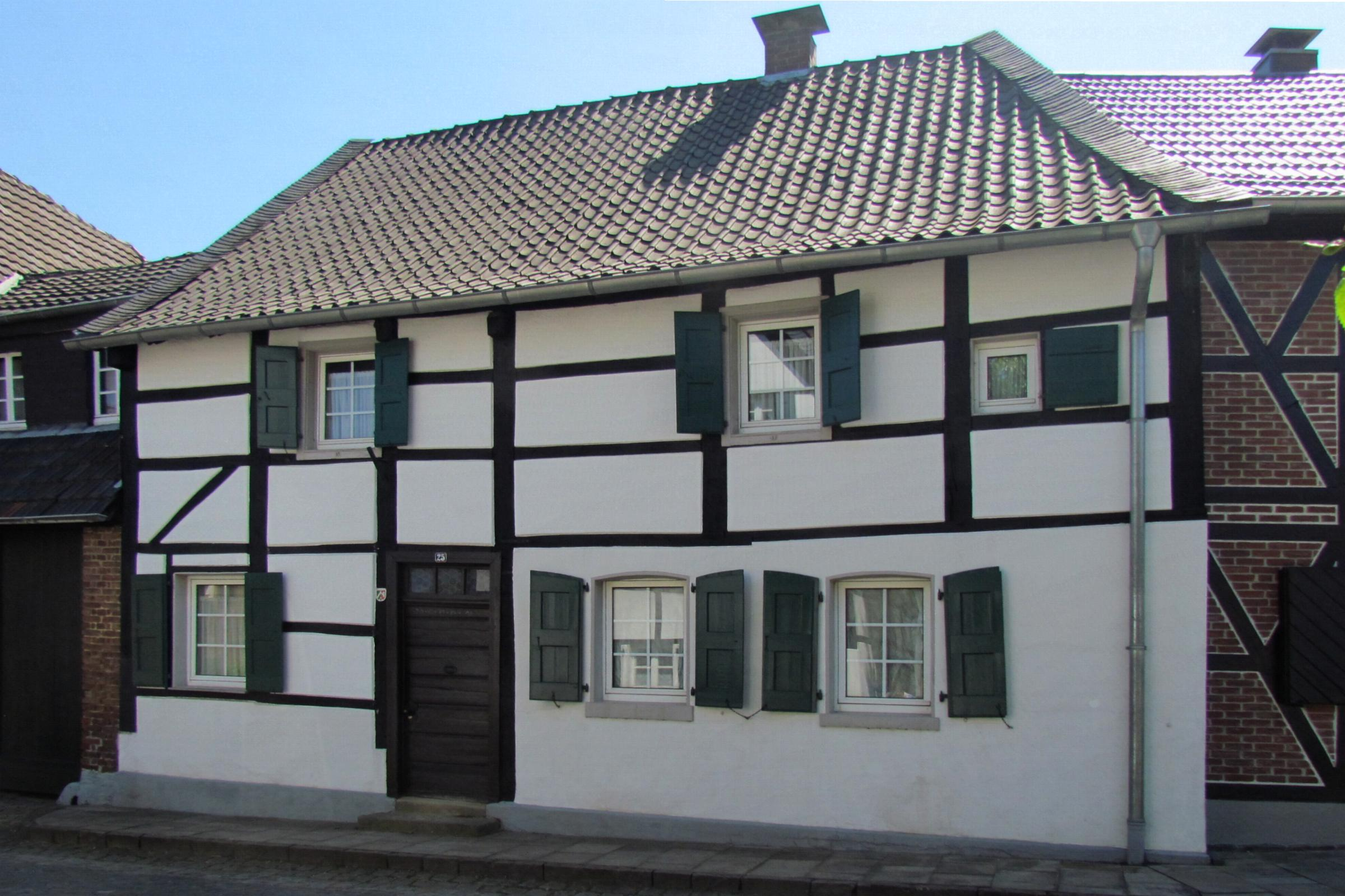 This is a photograph of an architectural monument.It is on the list of cultural monuments of Korschenbroich